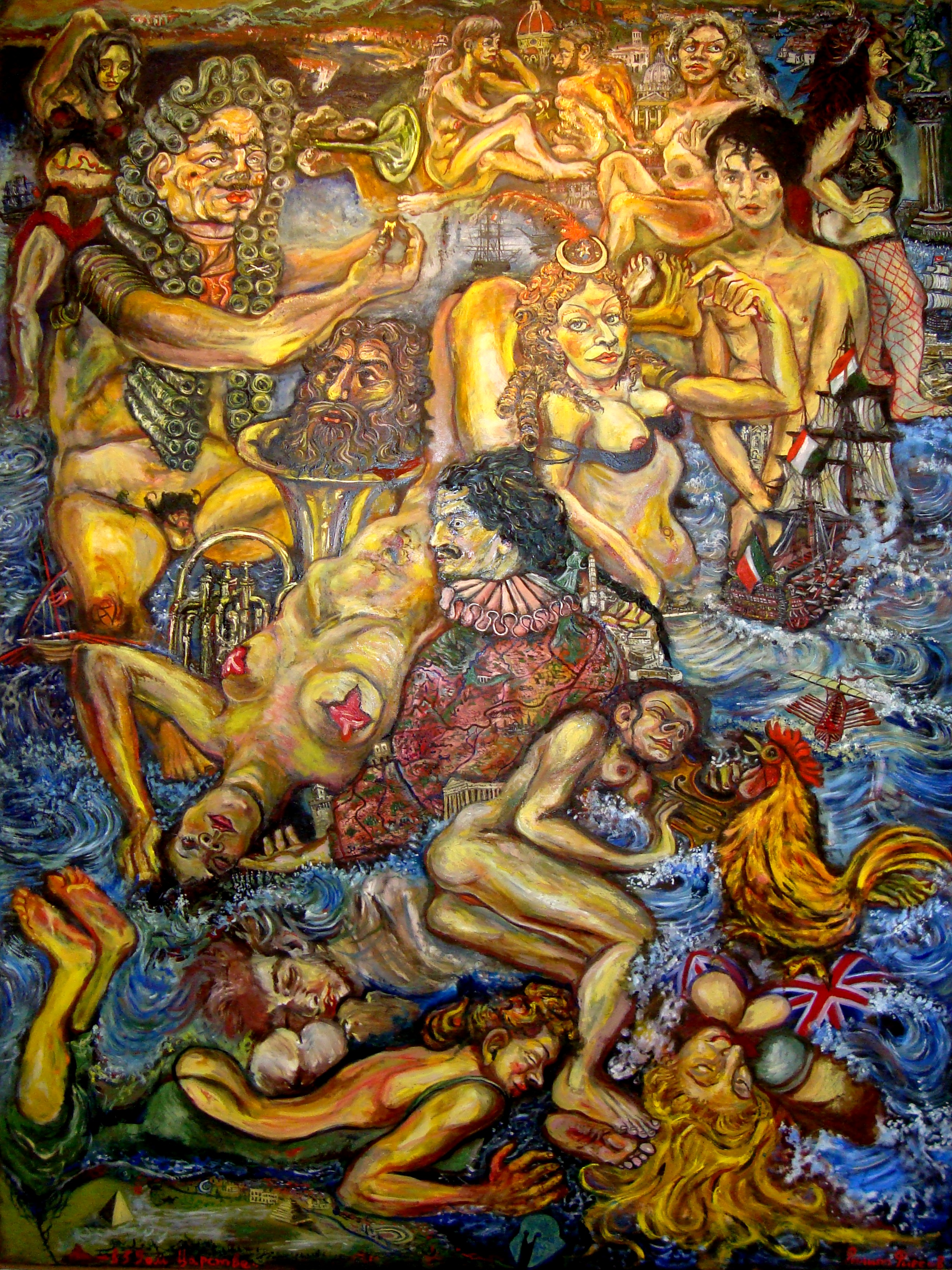 Philip Firsov In 39th Kingdom 2011-12 oil on canvas